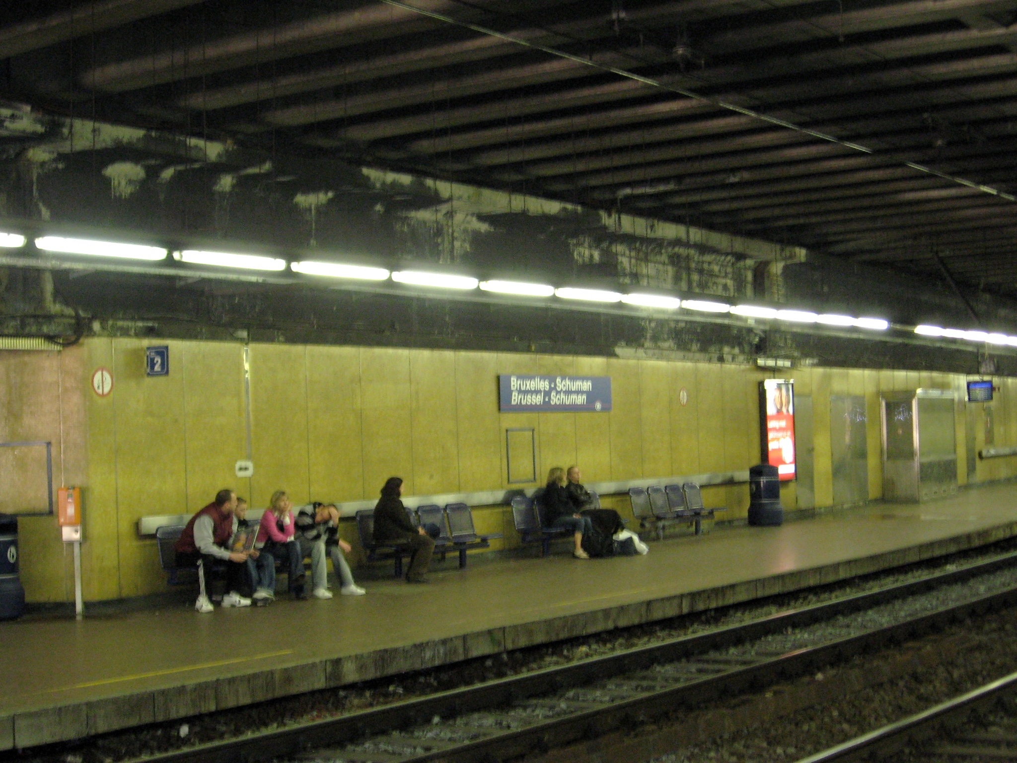 Train station of Brussels-Schuman in Brussels, Brussels Region, Belgium